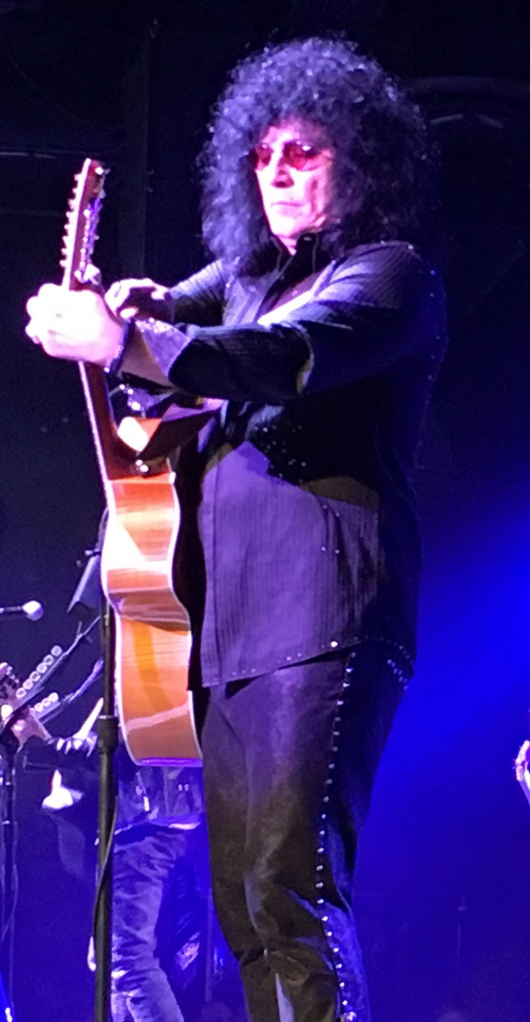 A performance of Raiding the Rock Vault at the Hard Rock Hotel & Casino Las Vegas in 2019, featuring (from left to right): Robin McAuley Paul Shortino Rowan Robertson Christian Brady Blas Elias Howard Leese